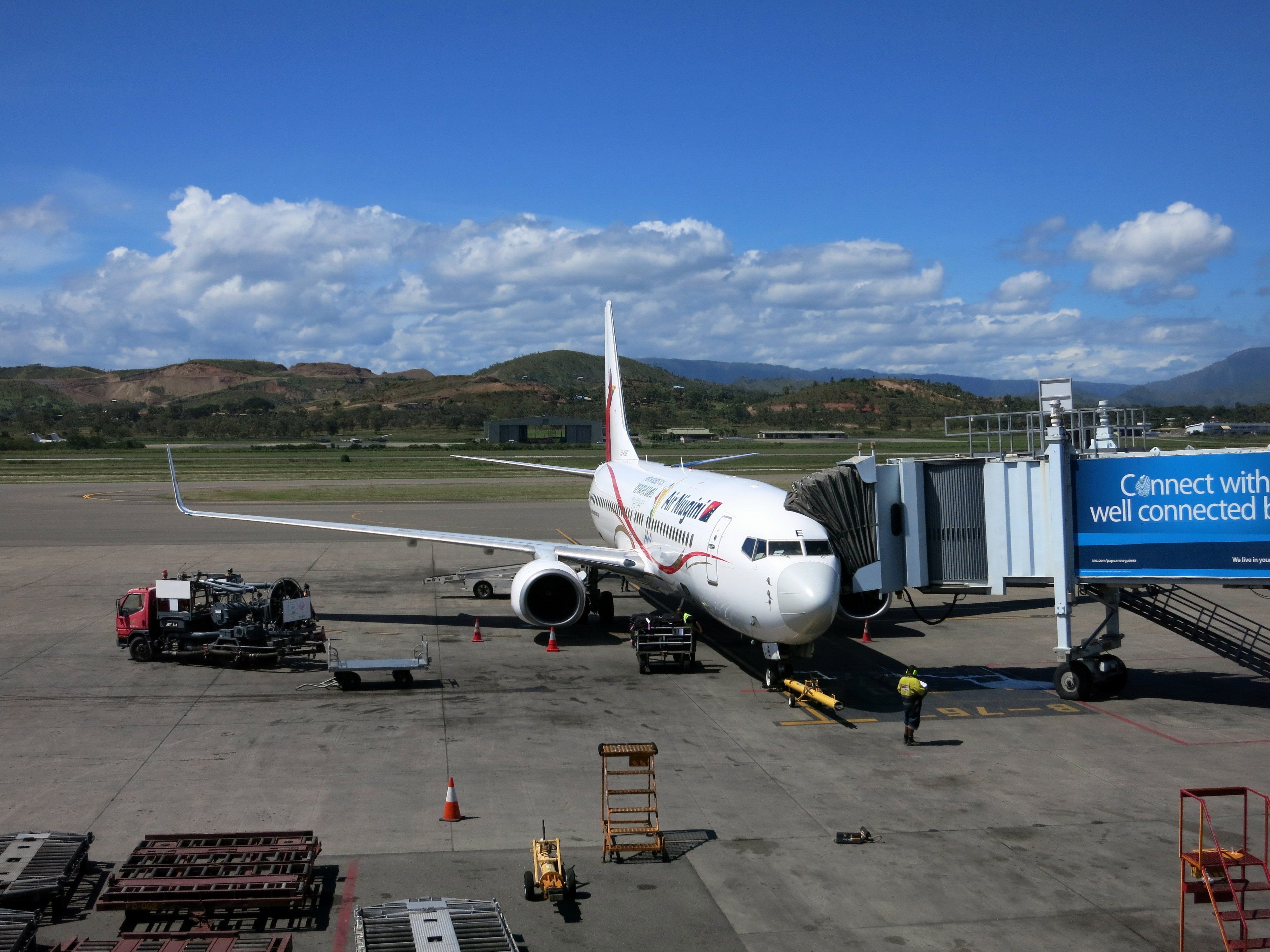 Air Niugini Boeing 737-800 P2-PXE at Jacksons International Airport in May 2015